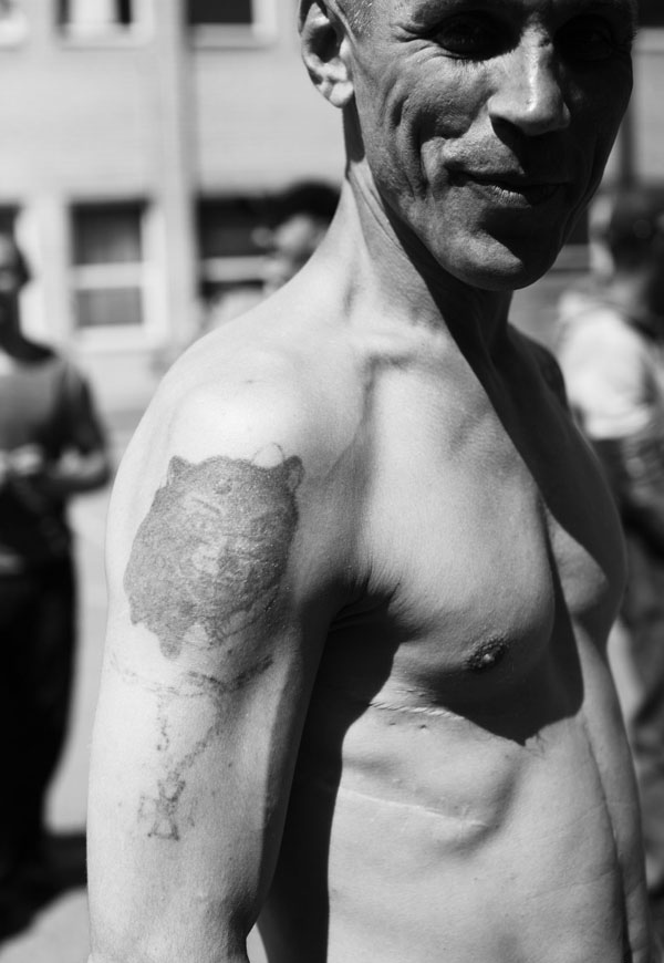 Shirtless male prisoner with animal and military medal tattoos on arm.